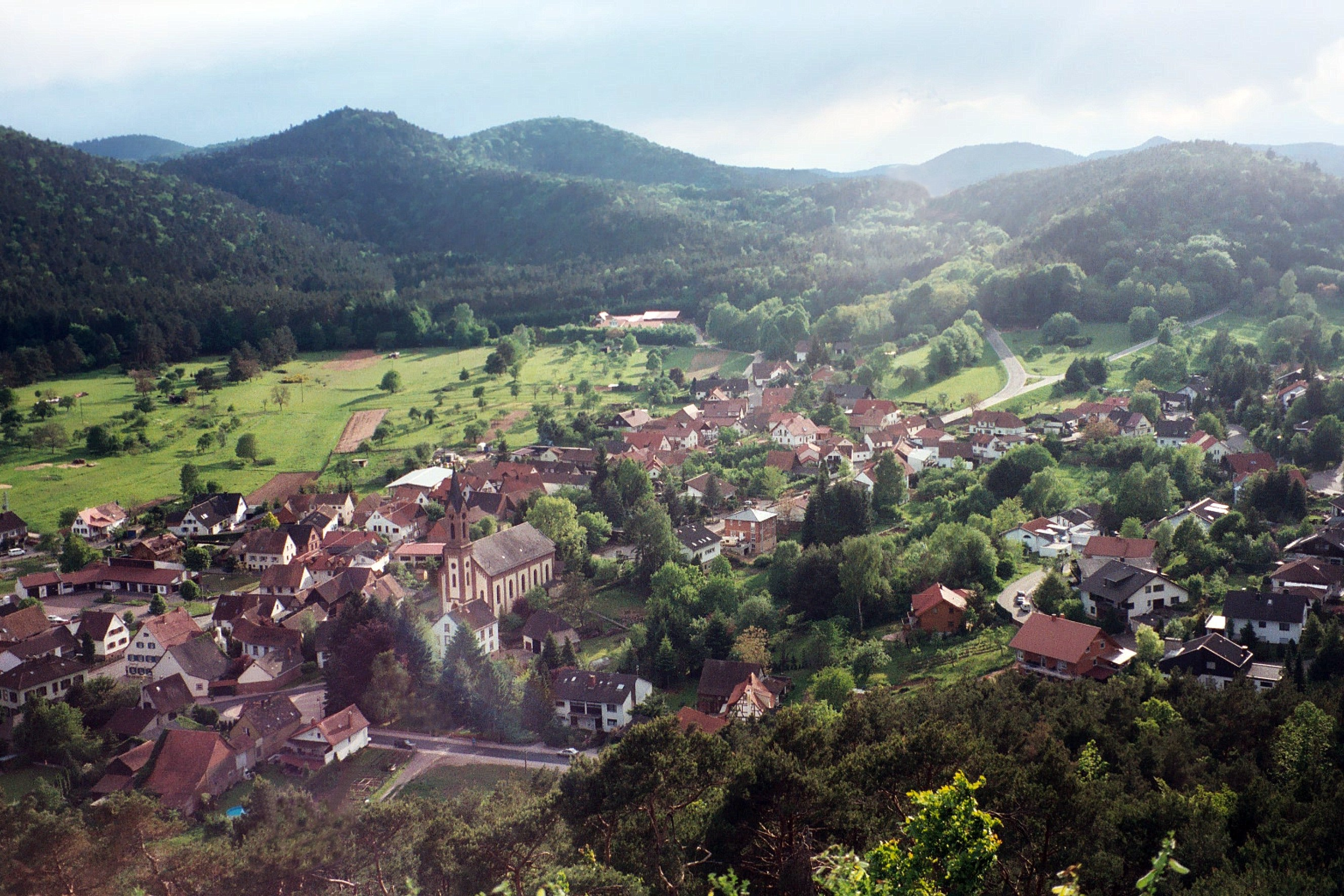 Birkenhördt, view from the Friedenskapelle to the village